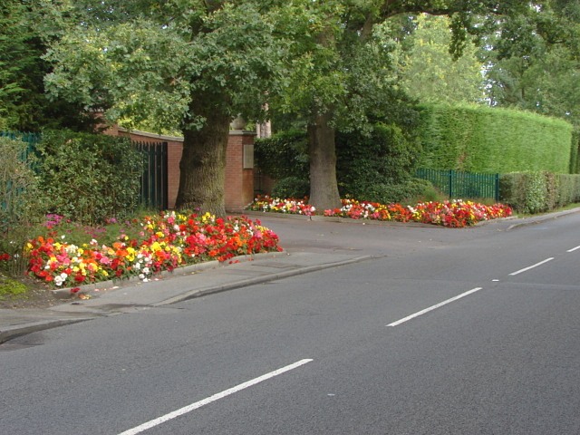 Windlesham Moor main entrance at Sunninghill Road, North Windlesham